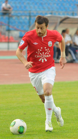 Gudzha Rukhaia